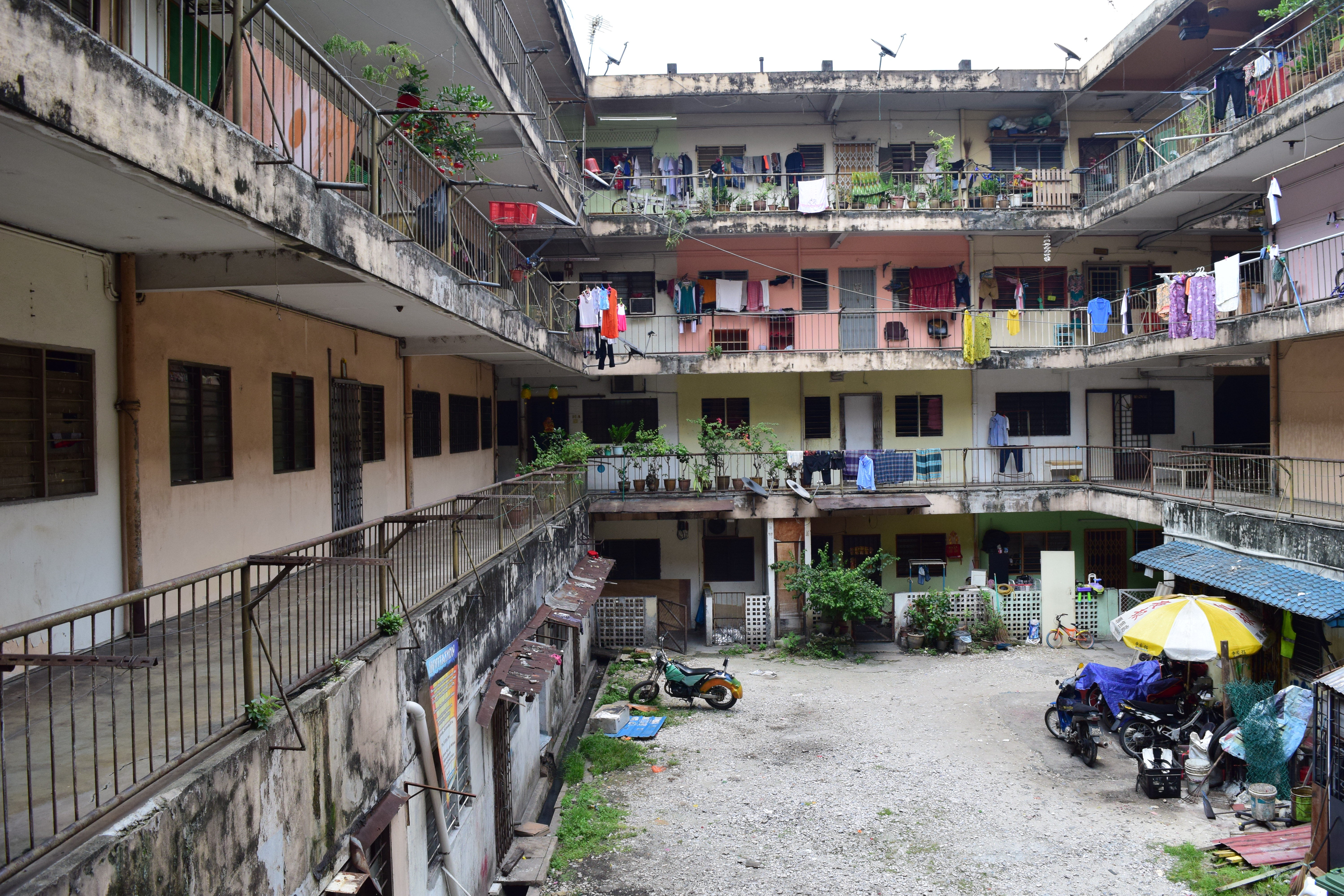 Courtyard of Marble Jade Mansion